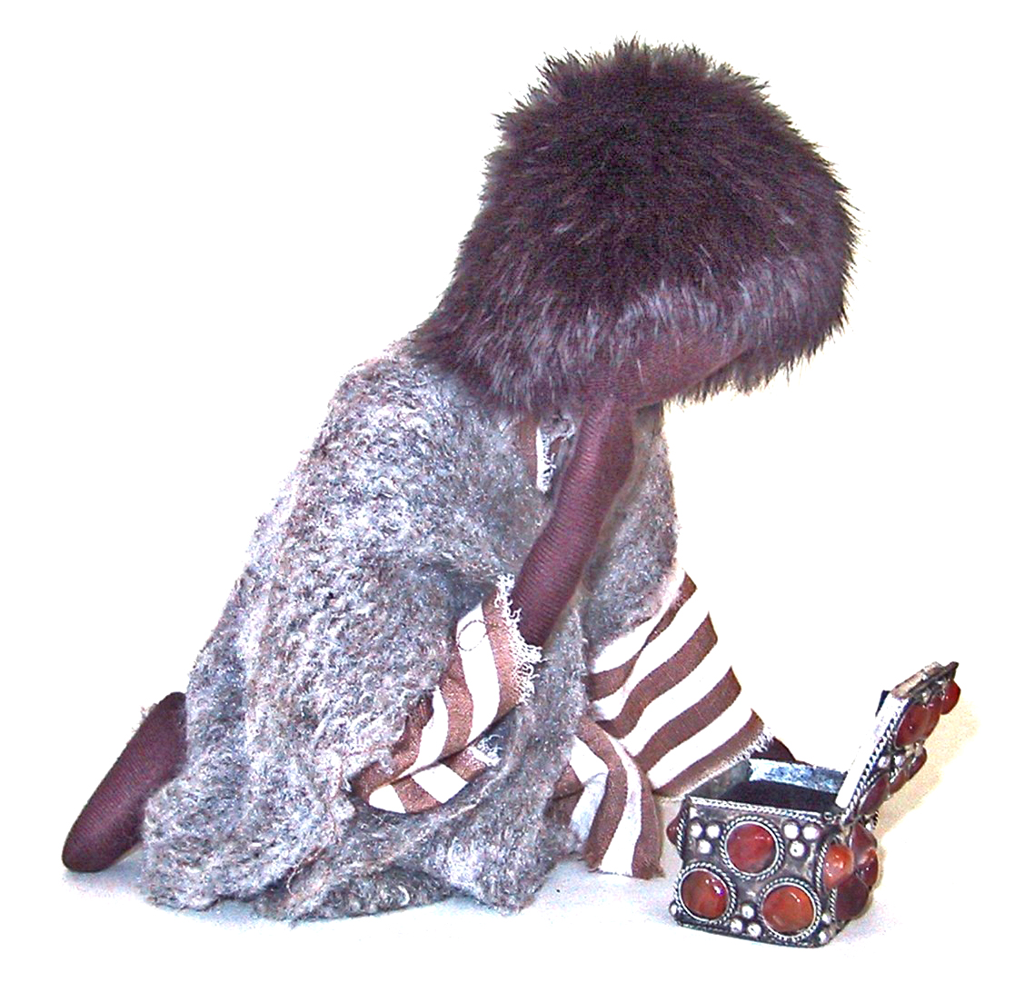 Biblical Narrative Figure - Treasurefinder.